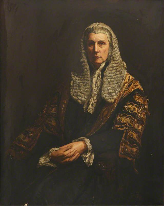 Portrait of Roundell Palmer, 1st Earl of Selborne, Lord Chancellor